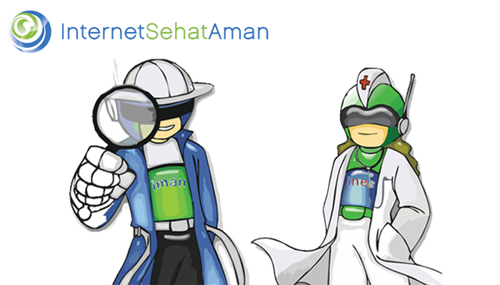 INSAN